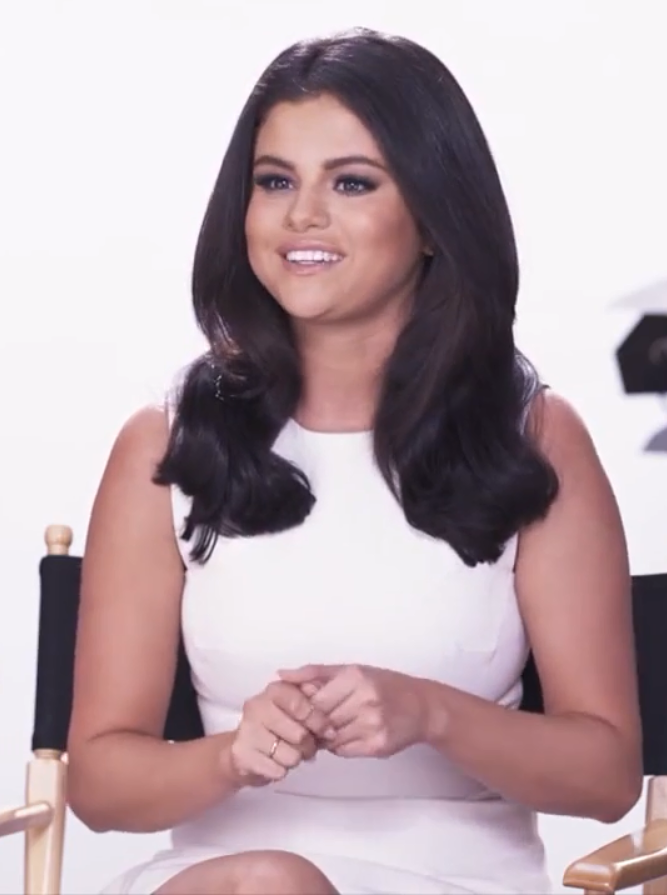 Selena Gomez in a behind the scenes for Pantene